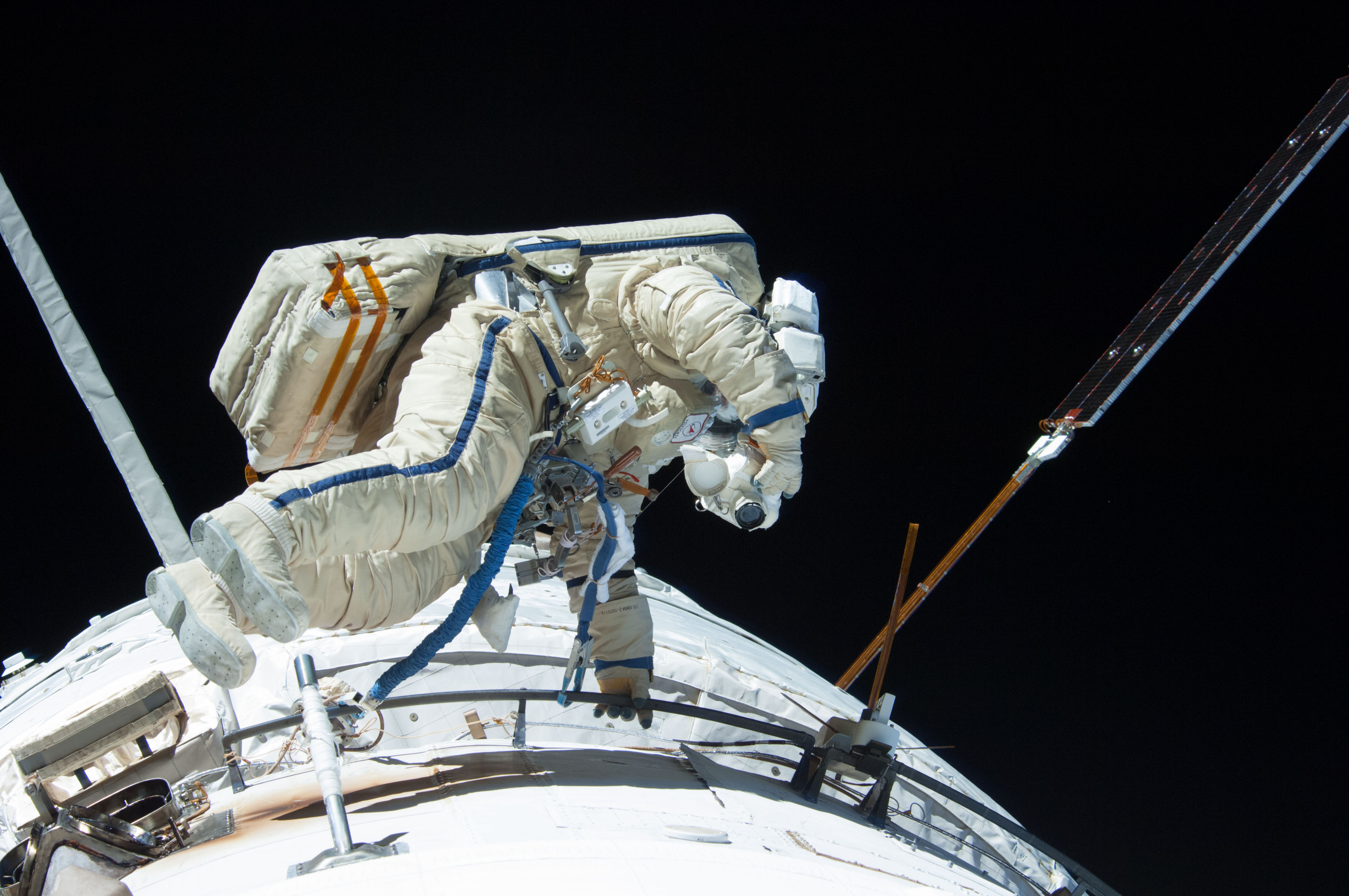 Russian cosmonaut Alexander Misurkin, Expedition 36 flight engineer, attired in a Russian Orlan spacesuit, participates in a session of extravehicular activity (EVA) to continue outfitting the International Space Station. During the five-hour, 58-minute spacewalk, Misurkin and Russian cosmonaut Fyodor Yurchikhin (out of frame) completed the replacement of a laser communications experiment with a new platform for a small optical camera system, the installation of new spacewalk aids and an inspection of antenna covers.